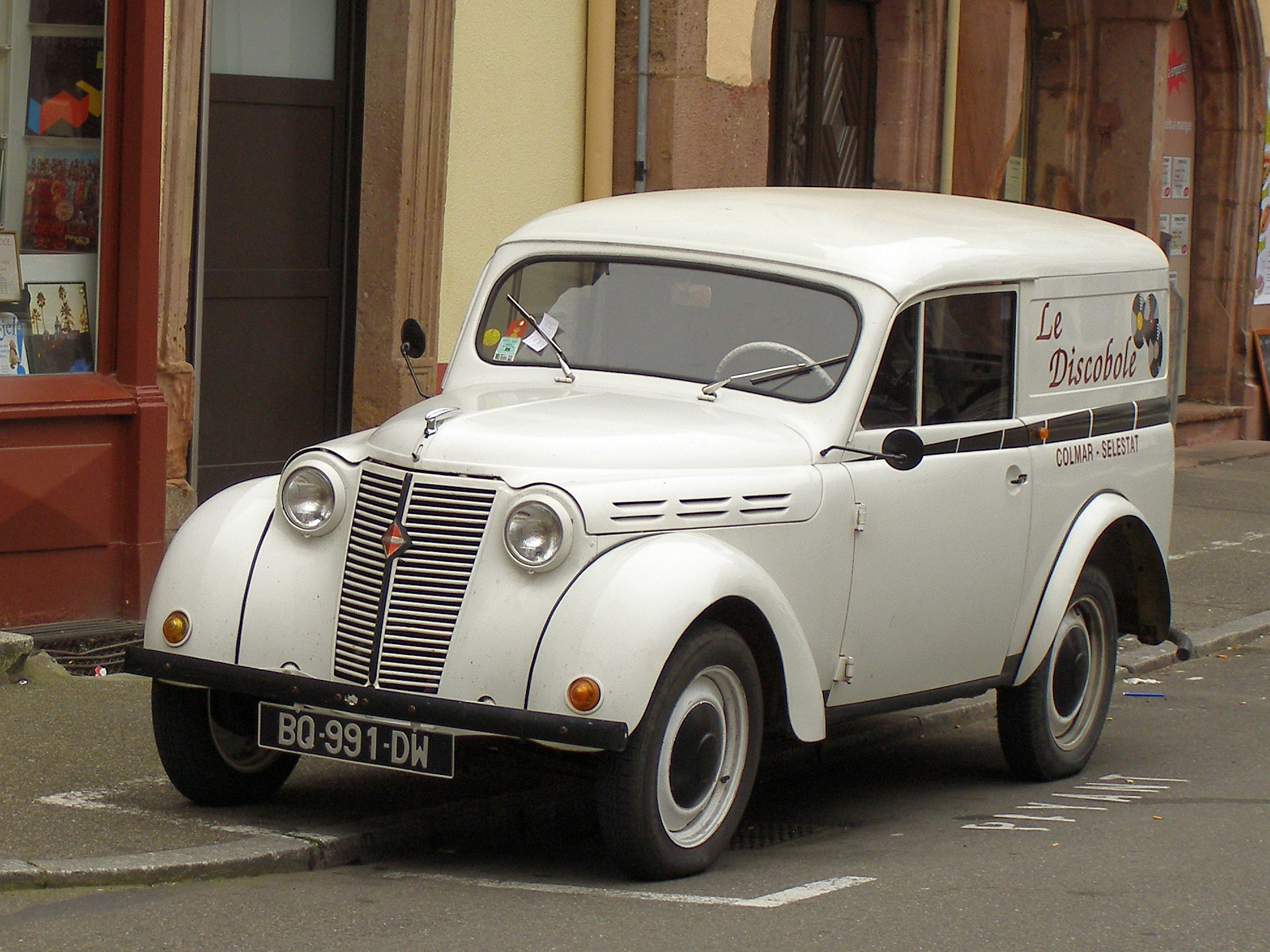 white lady